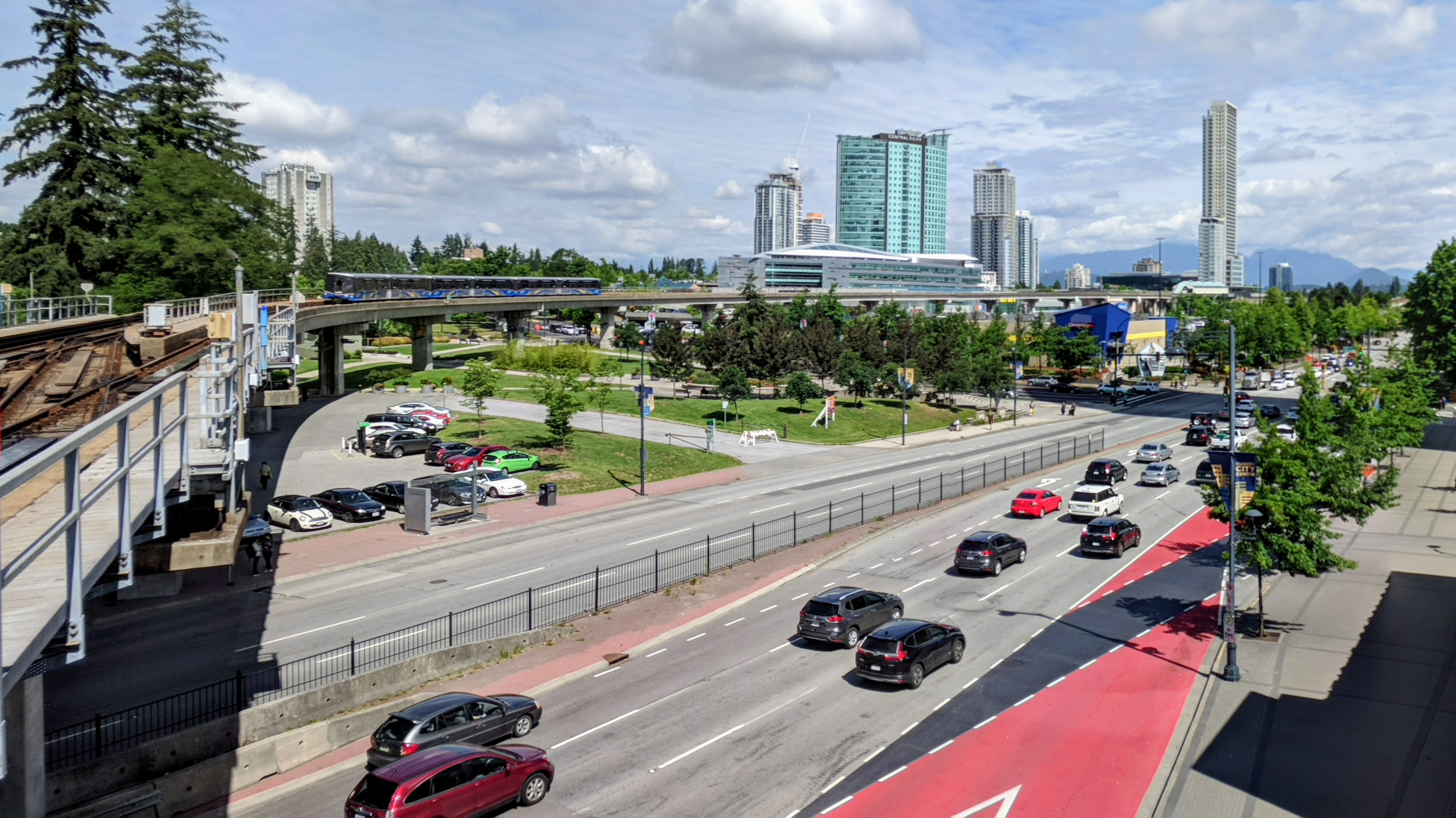 Skyline of Surrey City Centre viewed from King George station. June 2018.